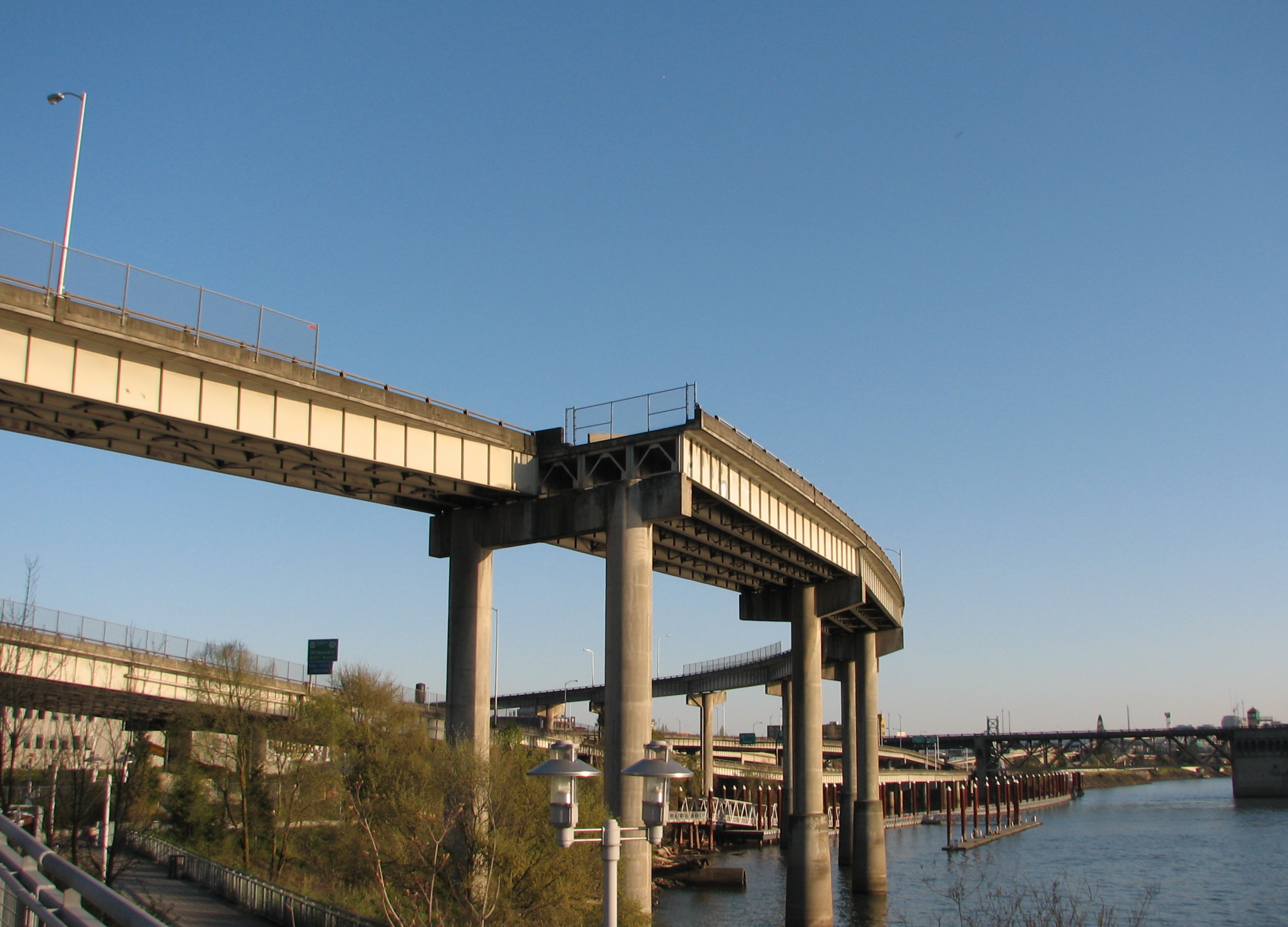 A photo of a ghost ramp off of a ramp (still existing) conveying US 30 from I-405 via I-5 to the western terminus of I-84 on the east bank of the Willamette River in Portland, Oregon (Satellite View). The removed ramp had provided a direct connection for traffic coming off the Steel Bridge eastbound to I-84 (formerly I-80N) eastbound, so it was really an on-ramp to I-84, not related to US Hwy. 30. It was closed in the 1980s and removed circa 1989.